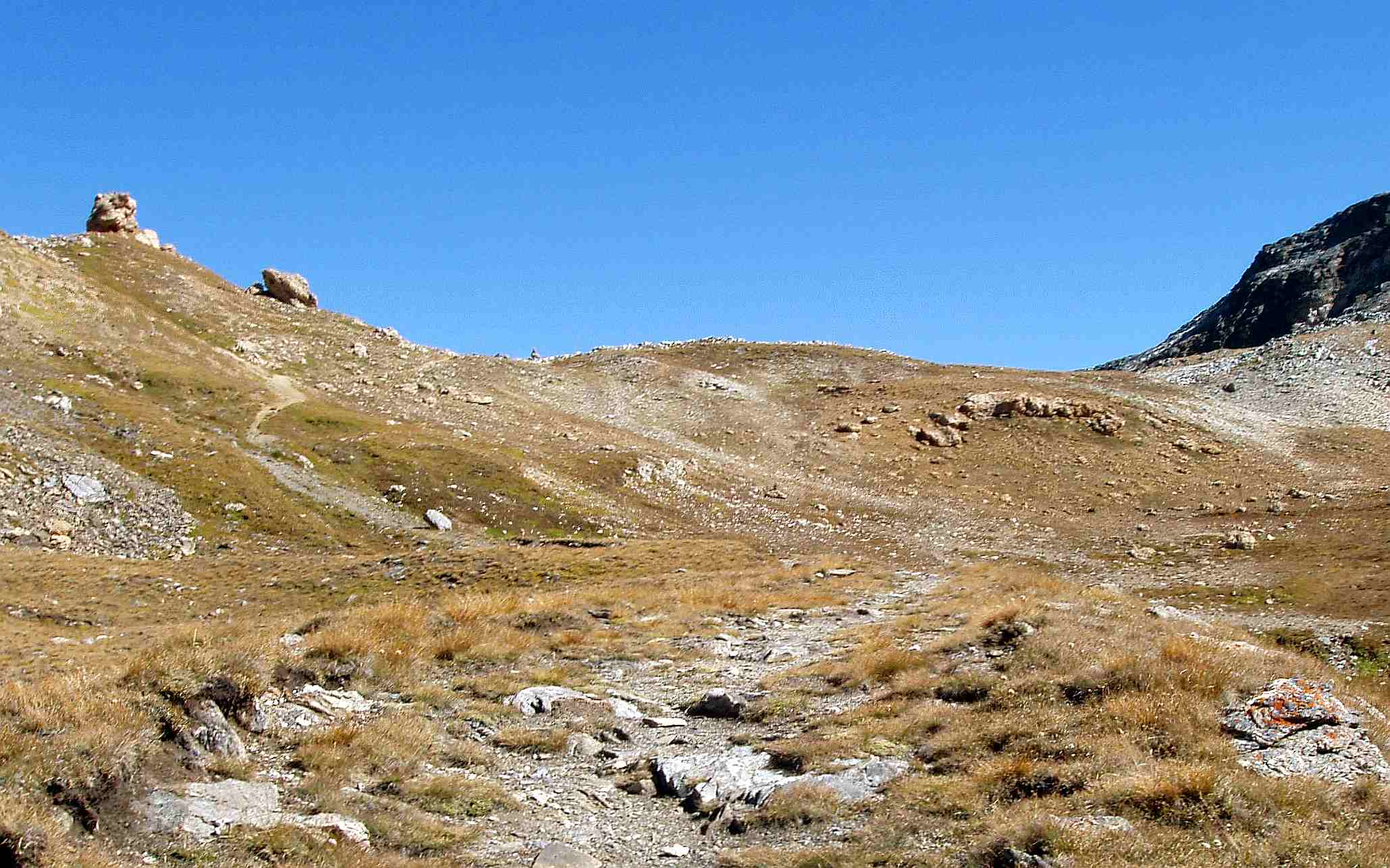 Etiache pass: italian side (Cottian Alps, Italy/France border)